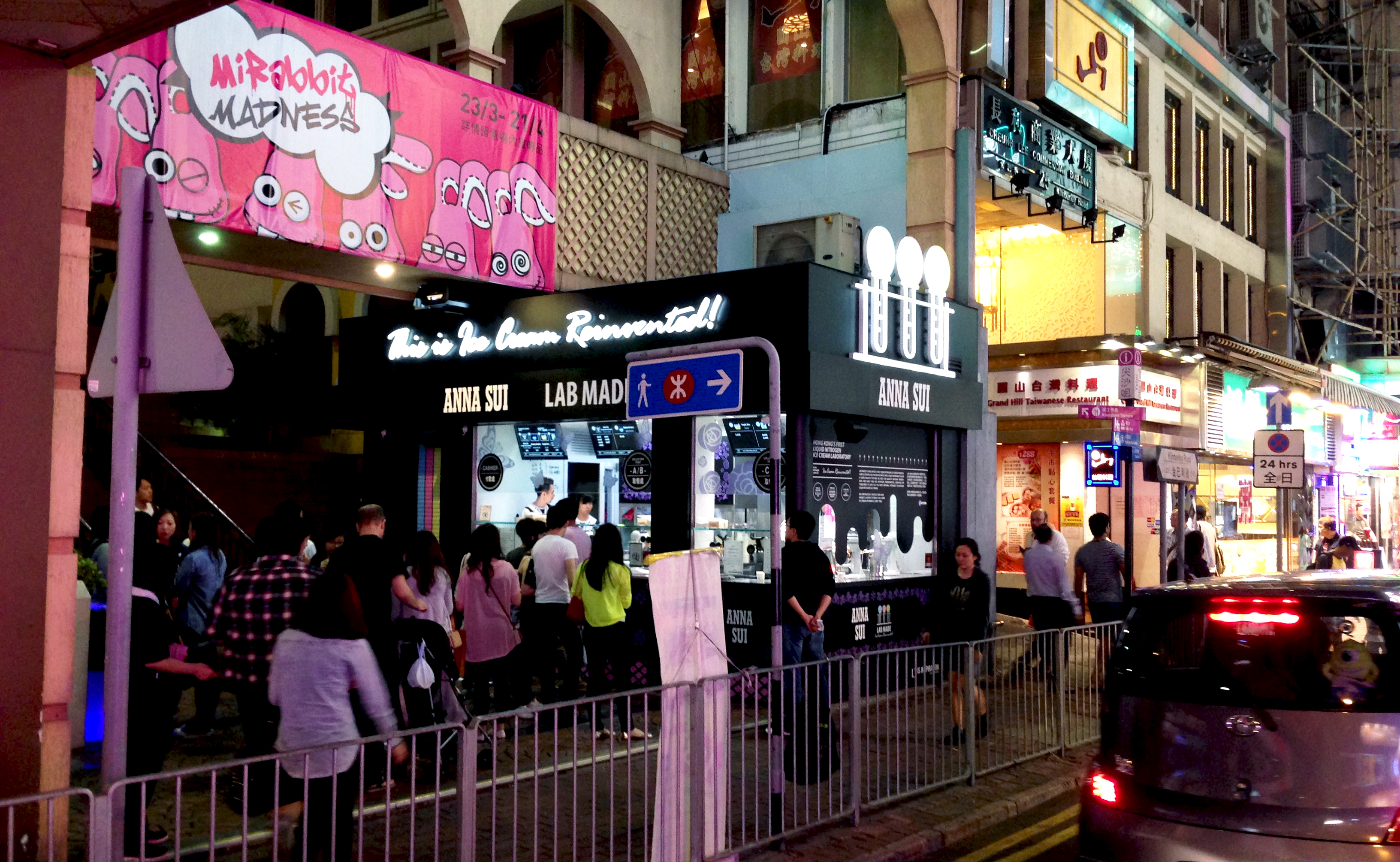 Entrance to Knutsford Terrace in Tsimshatsui at night with old Lab Made ice cream store.